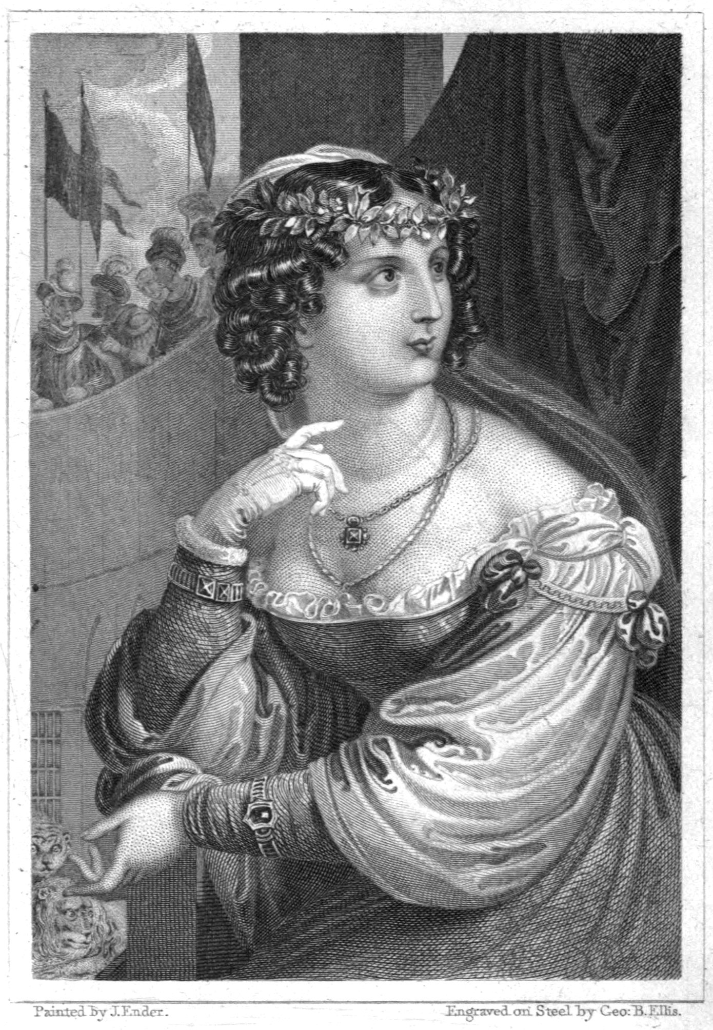 Charlotte Napoléone Bonaparte, Countess de Survilliers, engraved on steel by George B. Ellis from a painting by Johann Ender